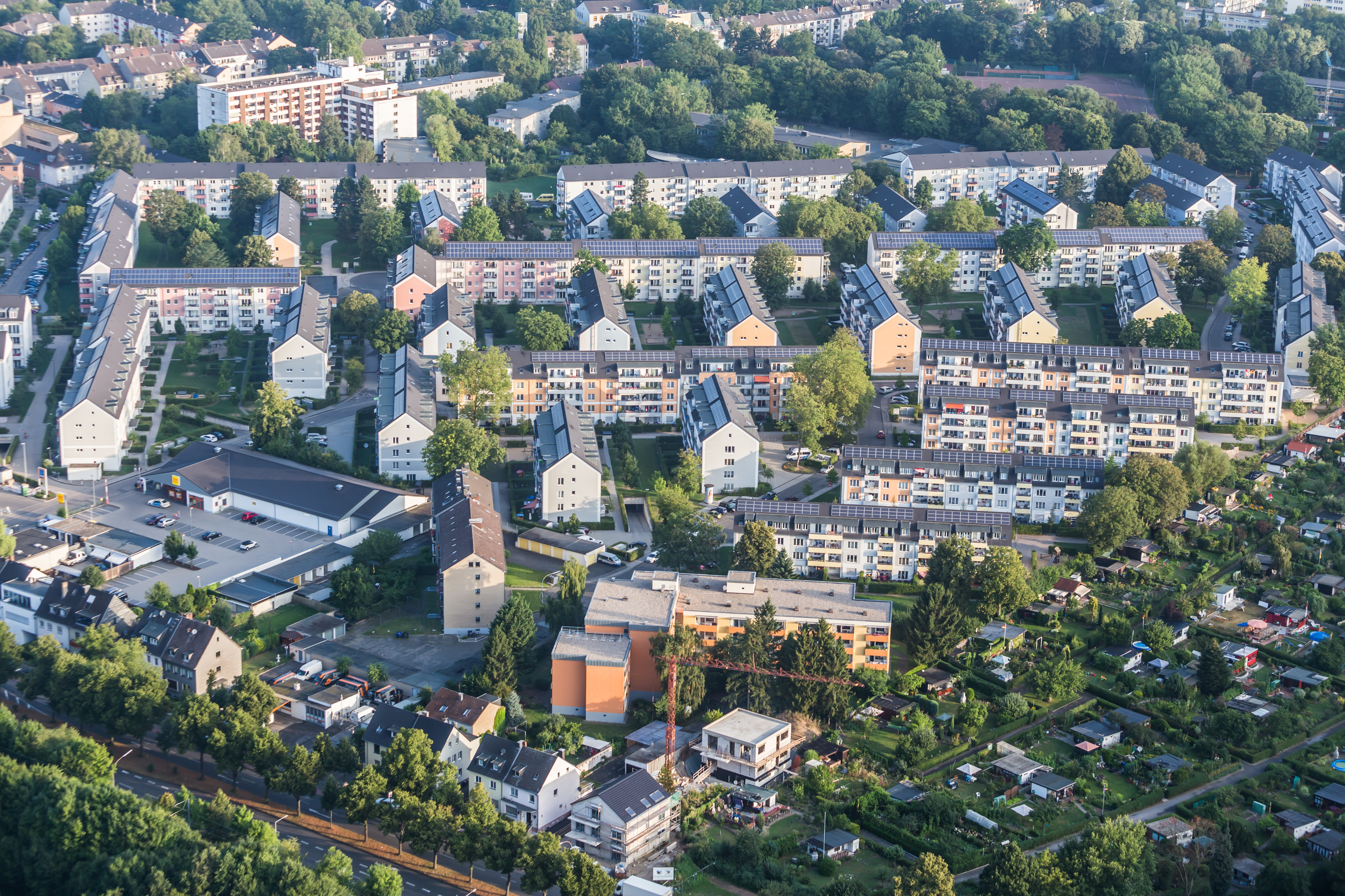 Hot air balloon trip across Cologne